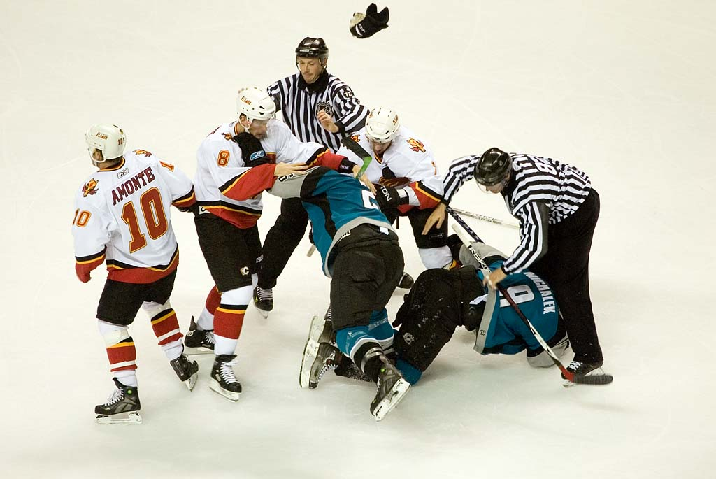 Brad Ference fighting Steve Bernier. Steve Bernier going in to protect Milan Michalek on the ground. see also Image:Steve_Bernier_vs_Brad_Ference.jpg